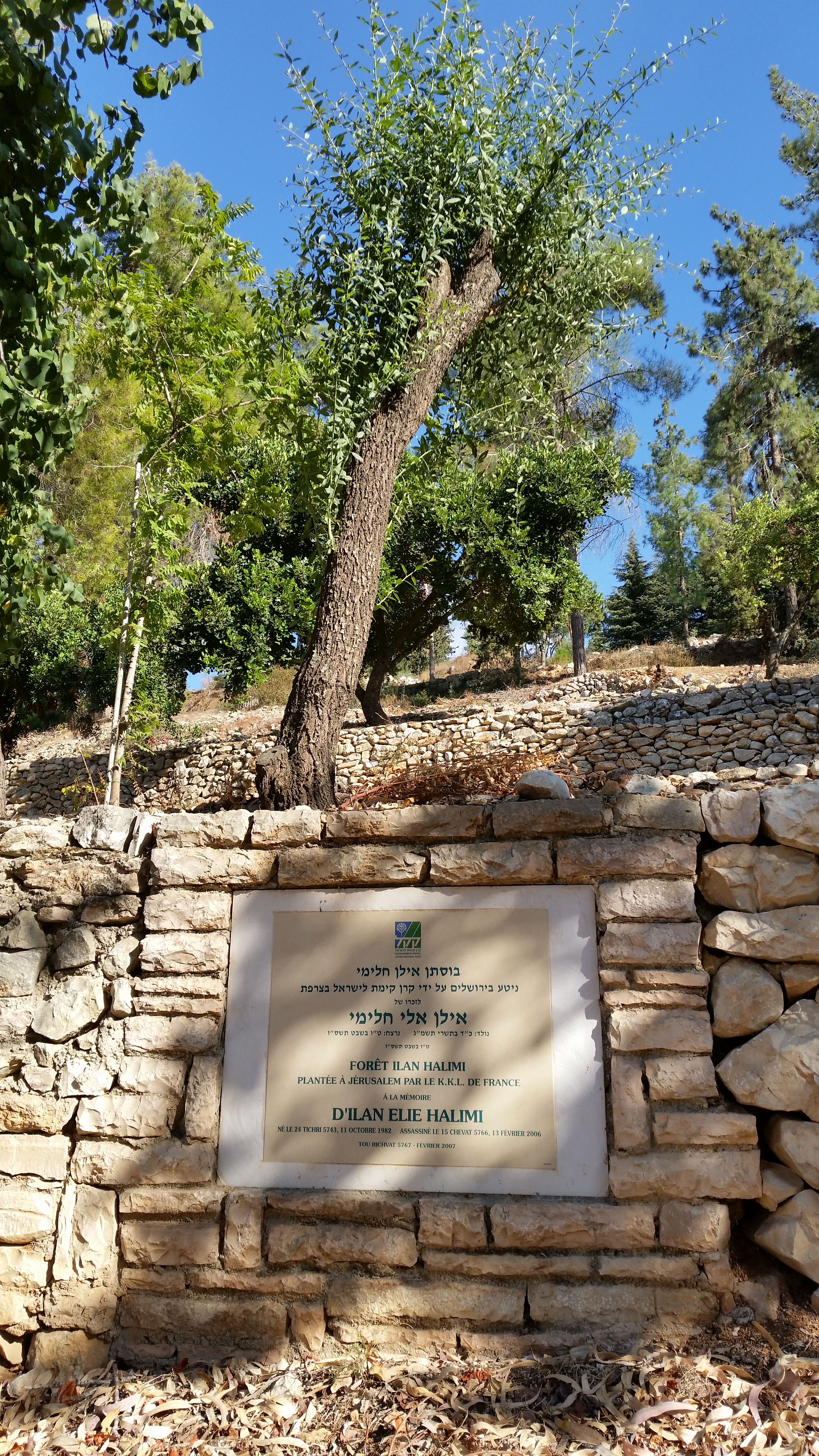 Plaque in Jerusalem forest, David Mordekhai Mae'ir street, at the beginning of the Cedar Trail